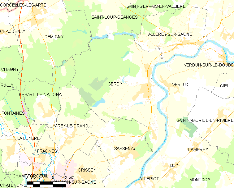 Map of French municipality